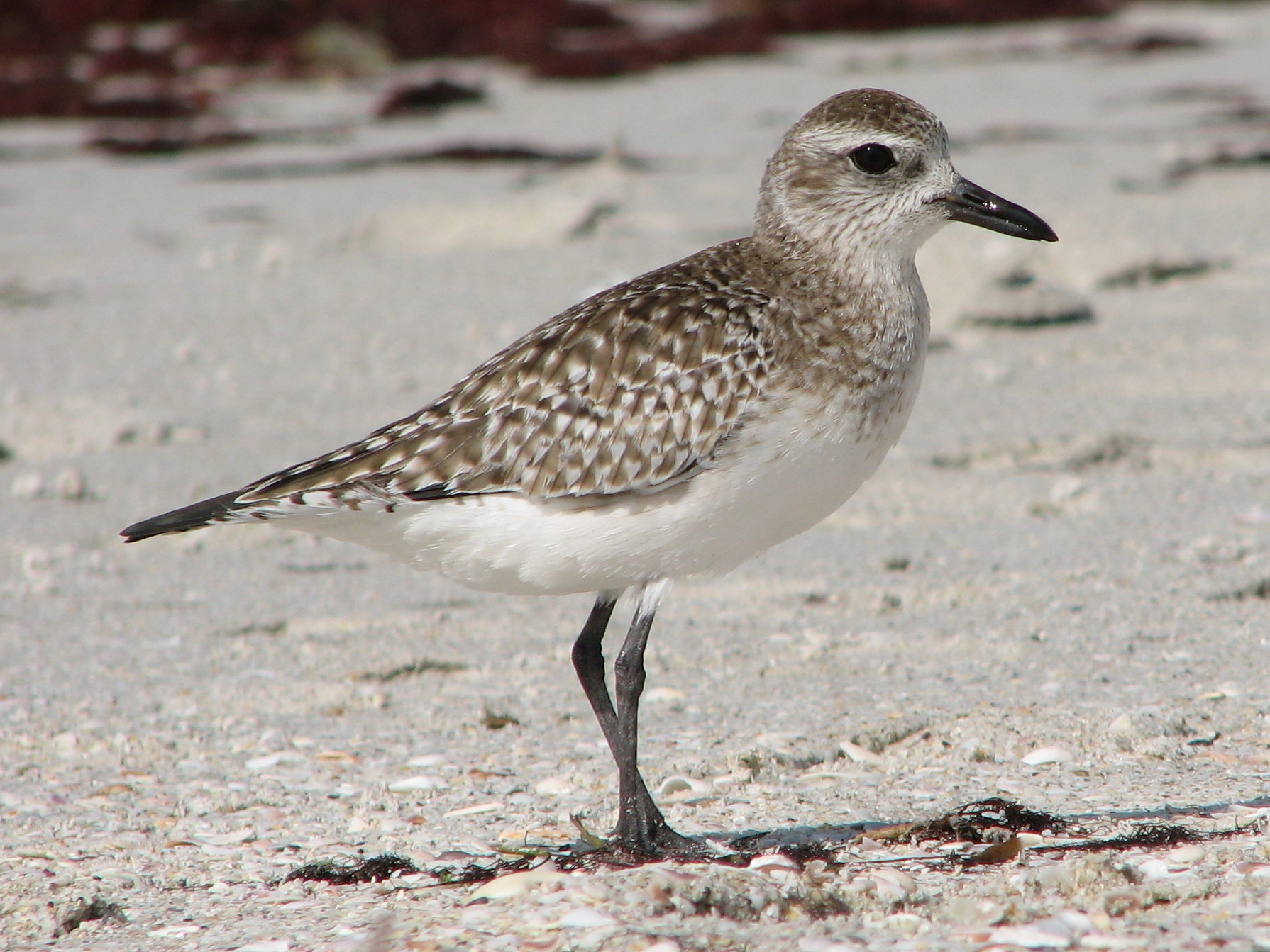 Black-bellied Plover aka Grey Plover (Pluvialis squatarola) in North Carolina